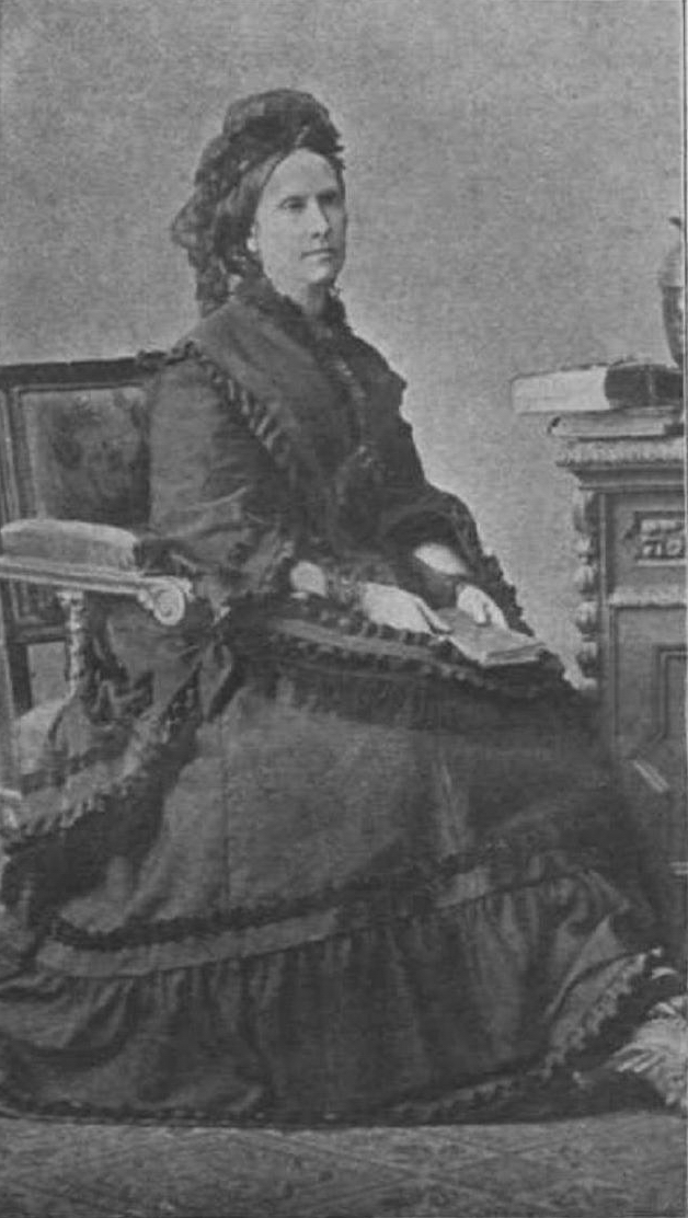 Pálné Veres